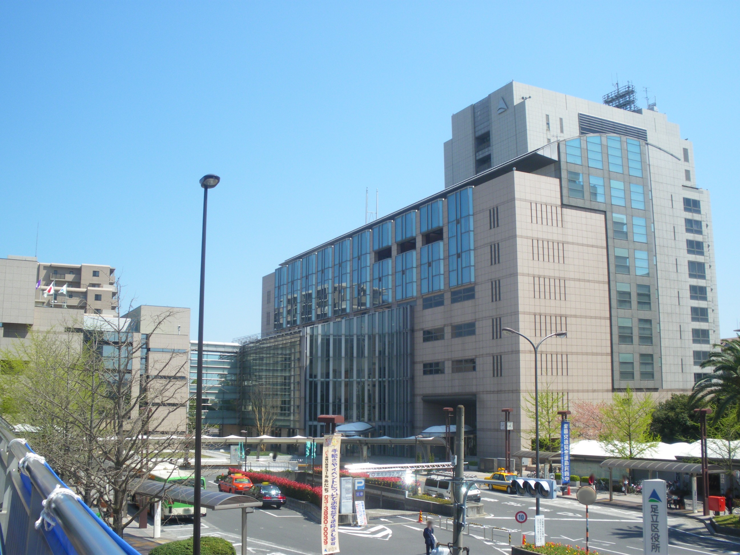 A photo of an overview of Adachi City office(North Wing(left) and Main wing(right))Chuohoncho,Adachi-ku,Tokyo,Japan.